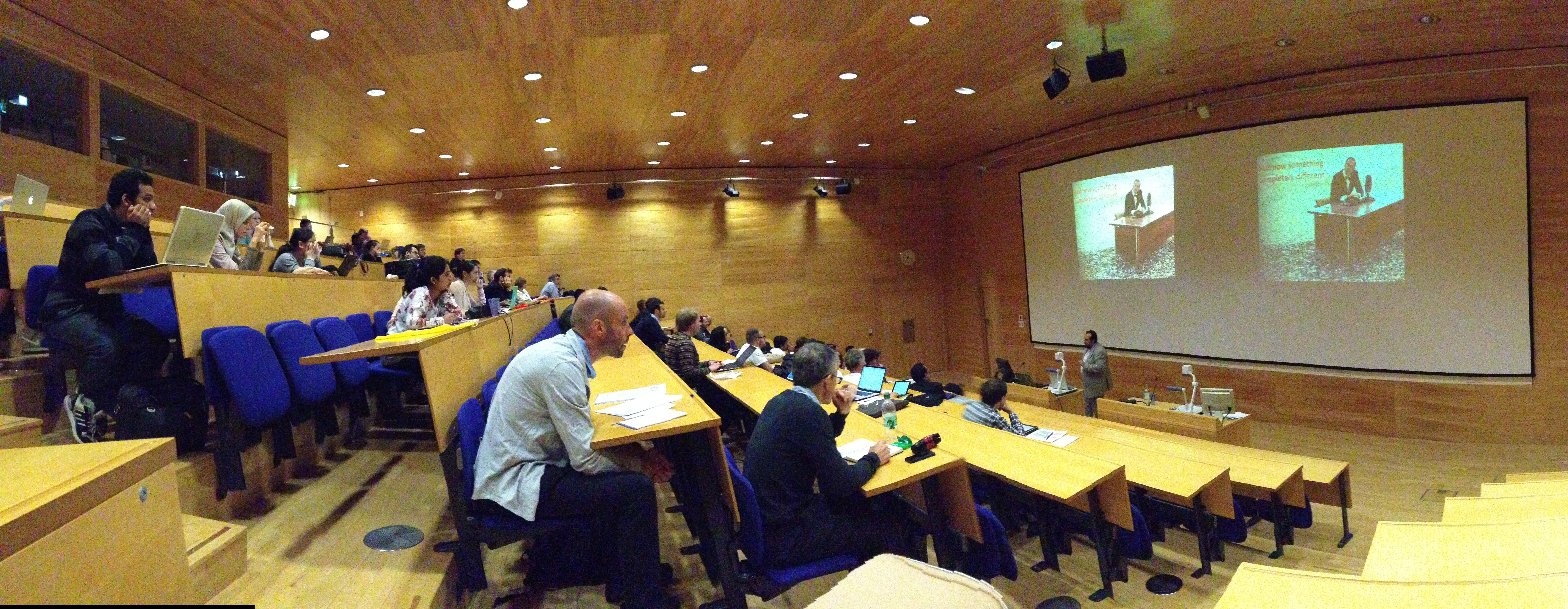 Picture of a speech during CIBB 2014 conference in Cambridge, Great Britain.